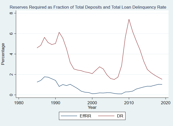 Data from Fred